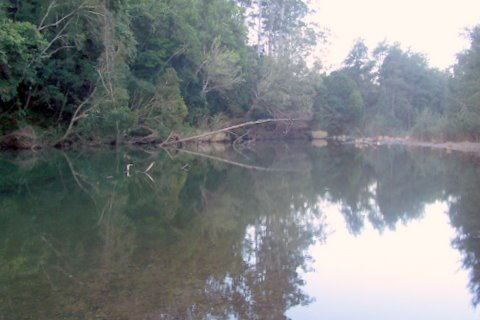 Ellenborough River at latitude -31.5252